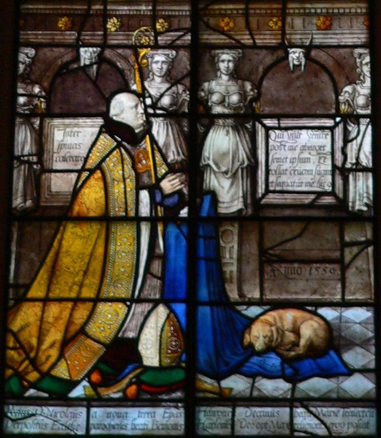 Nicolaas van Nieuwland, detail of the stained-glass window number 61 in the Sint Janskerk at Gouda/Netherlands: "The bearing of the Cross"